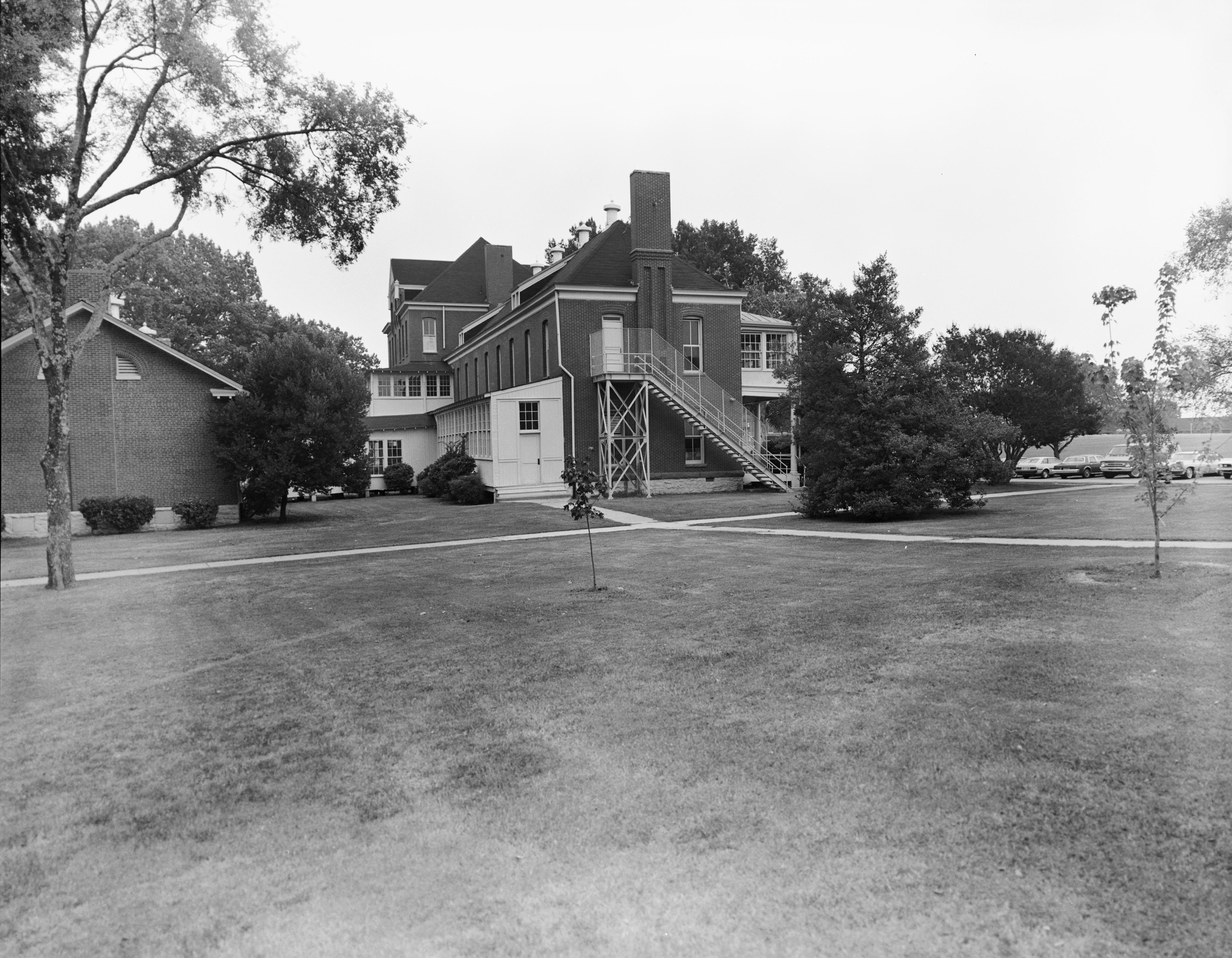 Western sid of Building #1 at the Fort Logan H. Roots Military Post, located off Scenic Hill Drive in North Little Rock, Arkansas, United States. Built in 1895, it is part of the historic district on the base that is listed on the National Register of Historic Places.